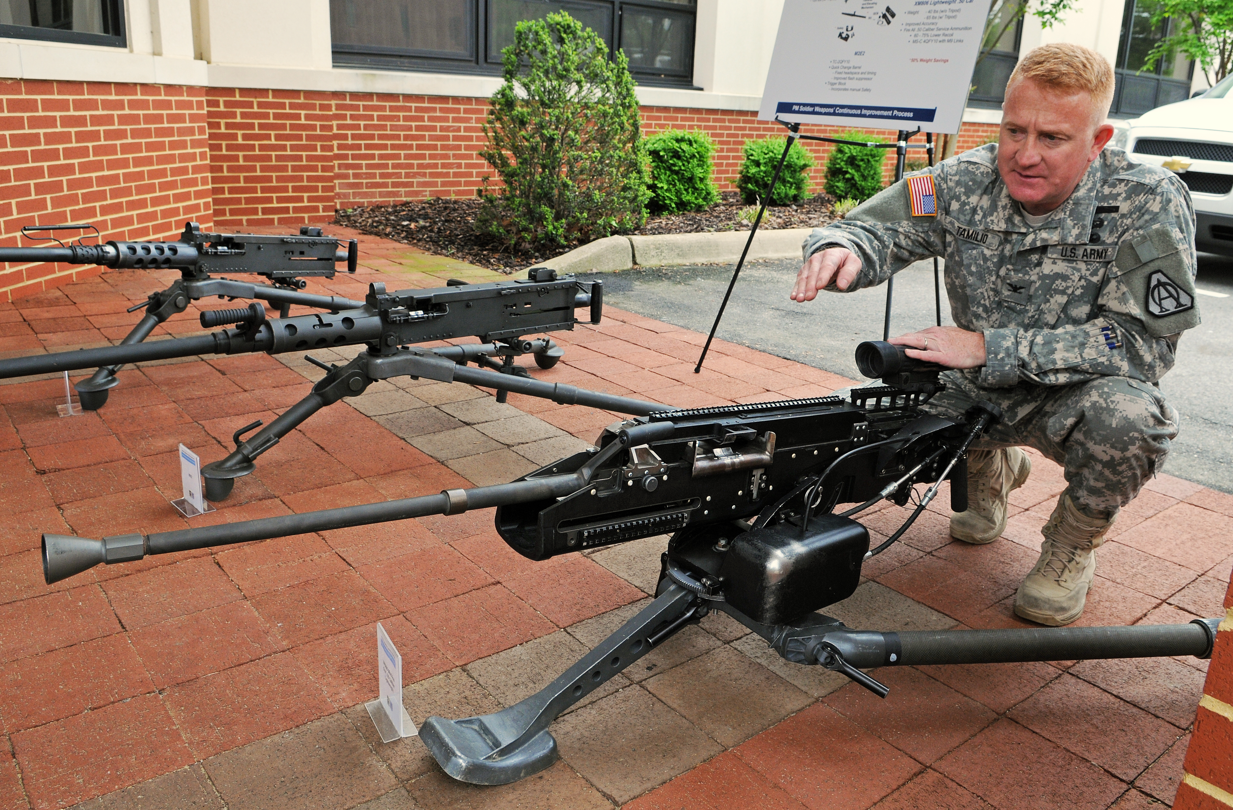 Col. Doug Tamilio, program manager for Soldier weapons and Soldier lethality and weight reduction, point out features of the Lightweight .50-Caliber Machine Gun. The lighter brother to the M-2 .50-caliber machine gun, it weighs half as much and has half as many parts along with 60 percent less recoil. PEO Soldier unveils lighter, more lethal weapons systems See more at Army.mil